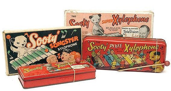 Sooty pixie Xylophonephone